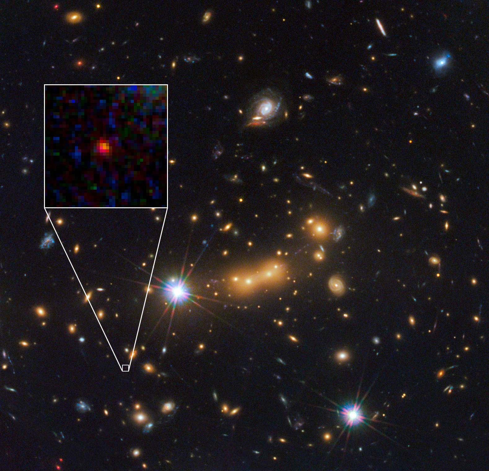 In this image, astronomers use the NASA/ESA Hubble Space Telescope and a cosmic zoom lens to uncover the farthest known galaxy in the Universe. The newly discovered galaxy, named MACS0647-JD, is very young and only a tiny fraction of the size of our Milky Way. The object is observed 420 million years after the Big Bang, when the Universe was 3 percent of its present age of 13.7 billion years. The inset at left shows a close-up of the young dwarf galaxy. This is the latest discovery from a large program that uses massive clusters of galaxies as natural zoom lenses to reveal distant galaxies in the early universe. Called the Cluster Lensing And Supernova survey with Hubble (CLASH), the program allows astronomers to use the gravity of massive galaxy clusters to magnify distant galaxies behind them, an effect called gravitational lensing. In this Hubble observation, astronomers used the massive galaxy cluster MACS J0647.7+7015 as the giant cosmic telescope. The bright yellow galaxies near the center of the image are cluster members. The cluster’s gravity boosted the light from the faraway galaxy, making its image appear approximately eight times brighter than it otherwise would. The gravitational lensing technique allowed astronomers to detect the galaxy more efficiently and with greater confidence. Without the cluster’s magnification powers, astronomers would not have seen this remote galaxy. This image is a composite taken with Hubble’s Wide Field Camera 3 and the Advanced Camera for Surveys. The observations were taken 5 October and 29 November 2011.